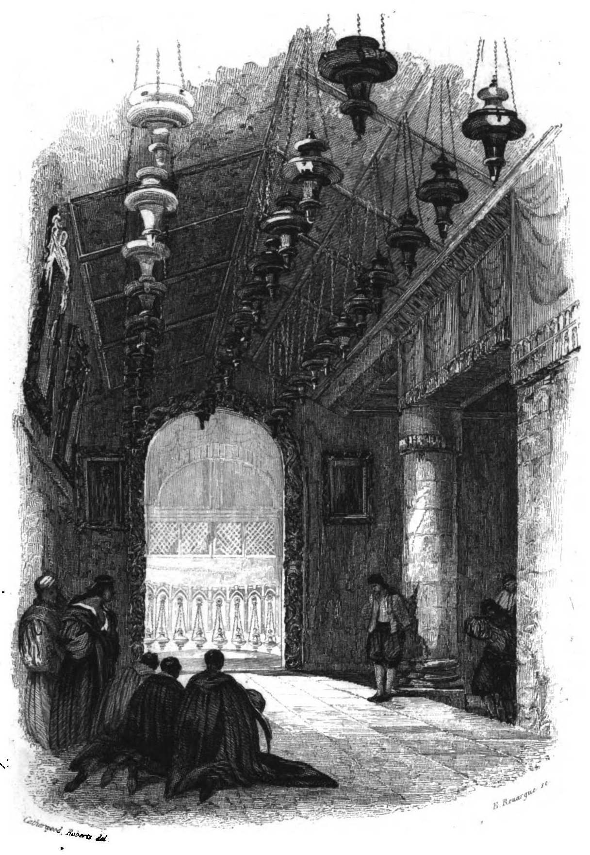 Nativity church